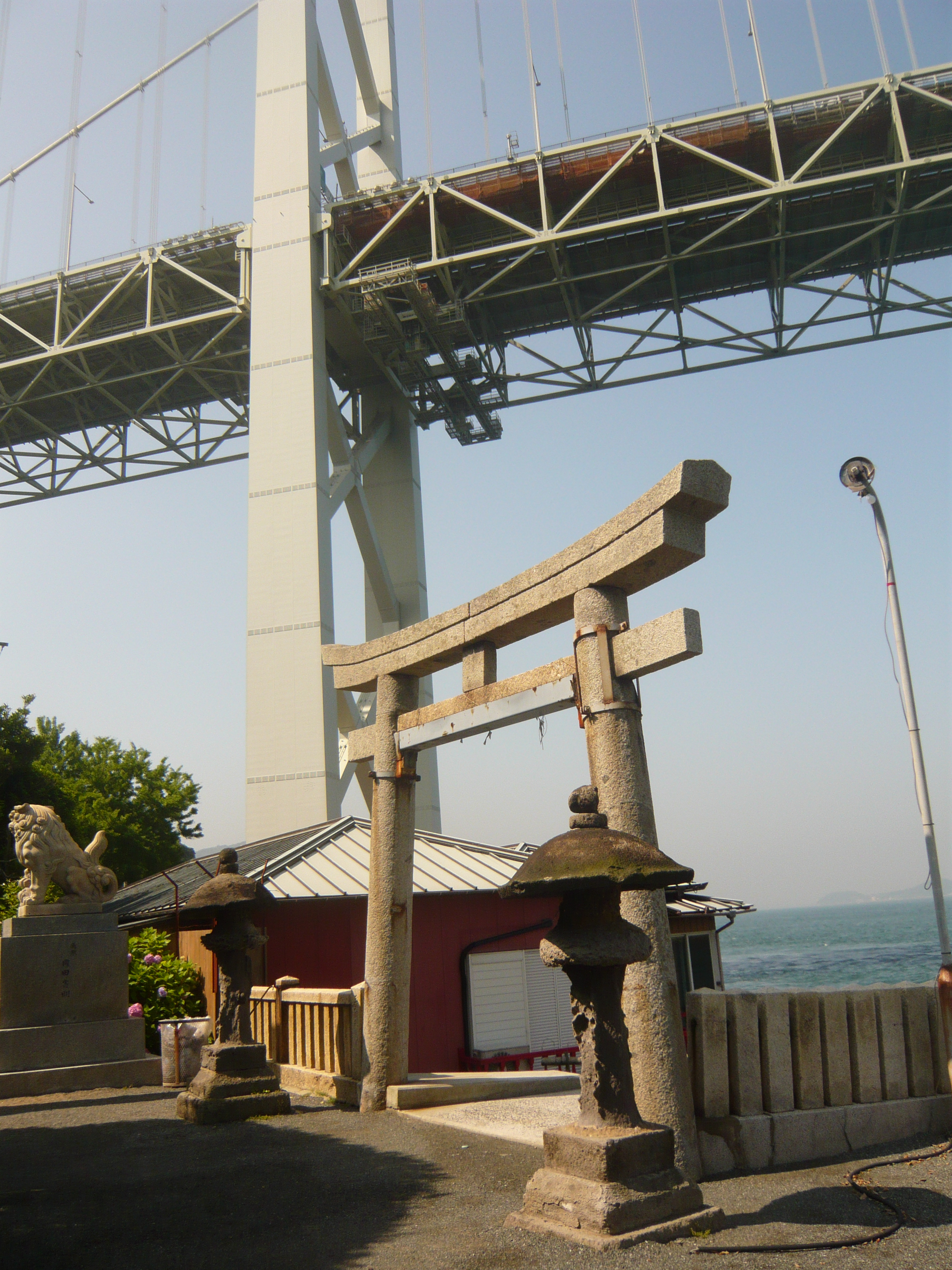 Mekari-jinja, Kitakyushu, Fukuoka, Japan